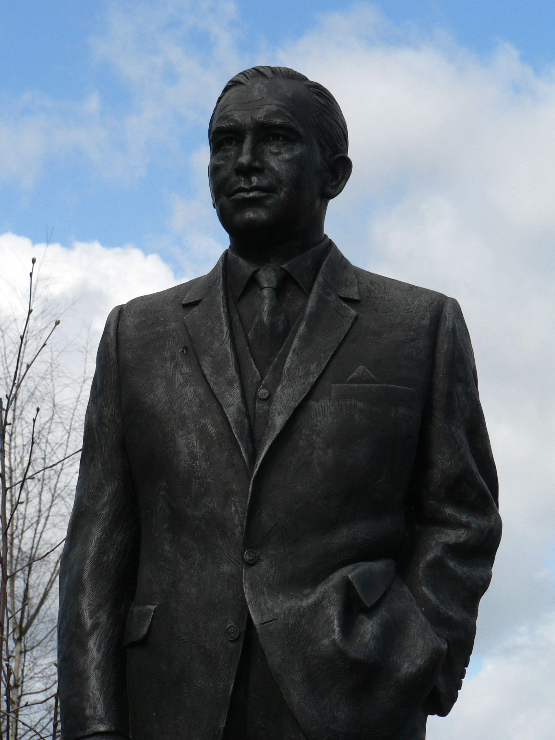 Close up of Sir Alf Ramsey's statue outside Ipswich Town Football Club